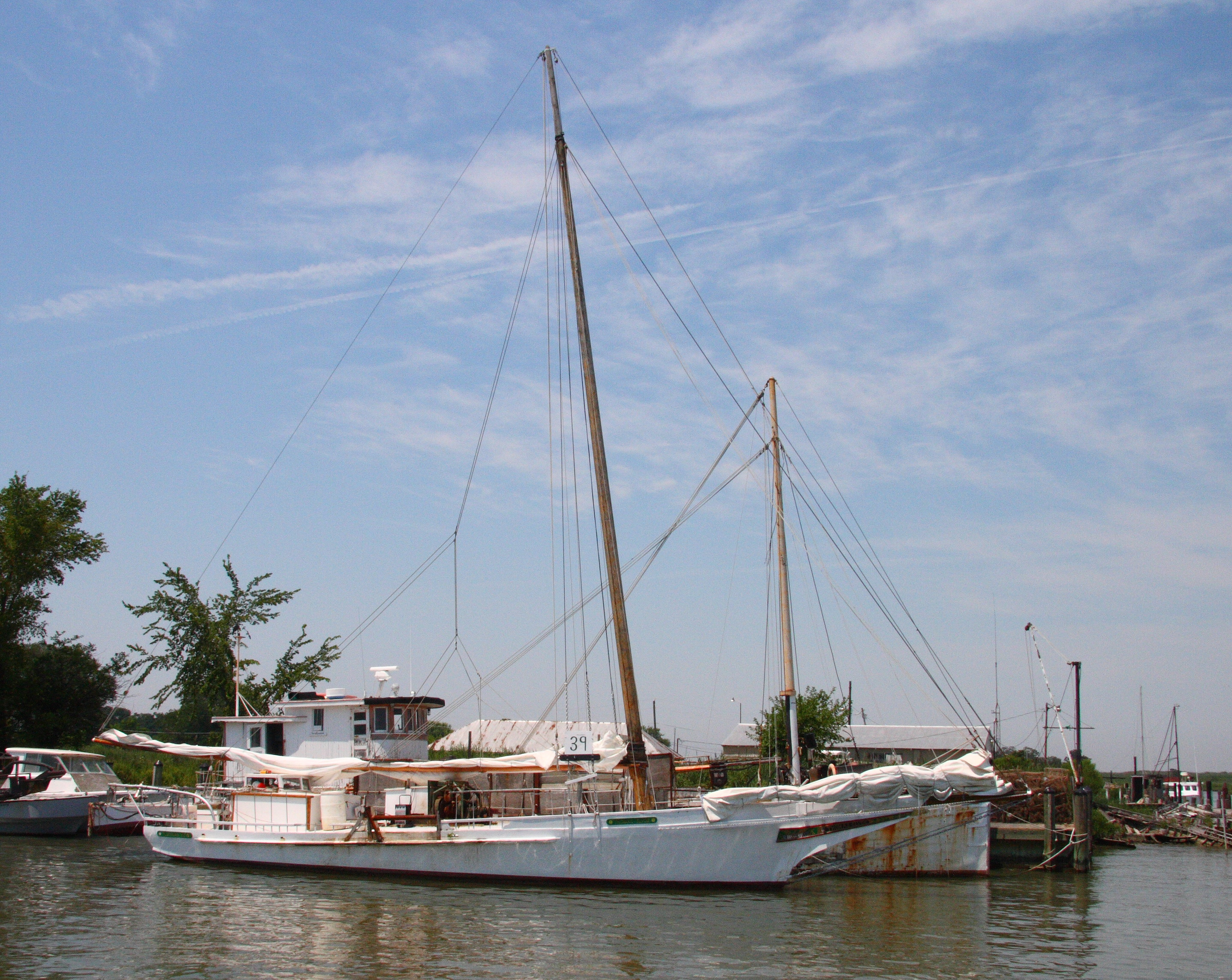 Skipjack Thomas W. Clyde at Knapp's Narrows, Tilghman Island, Maryland, USA, in front a a workboat